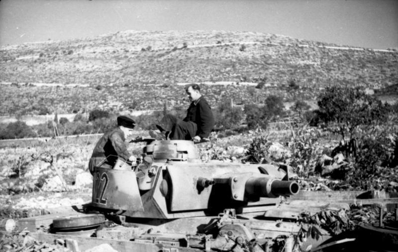 Information added by Wikimedia users.